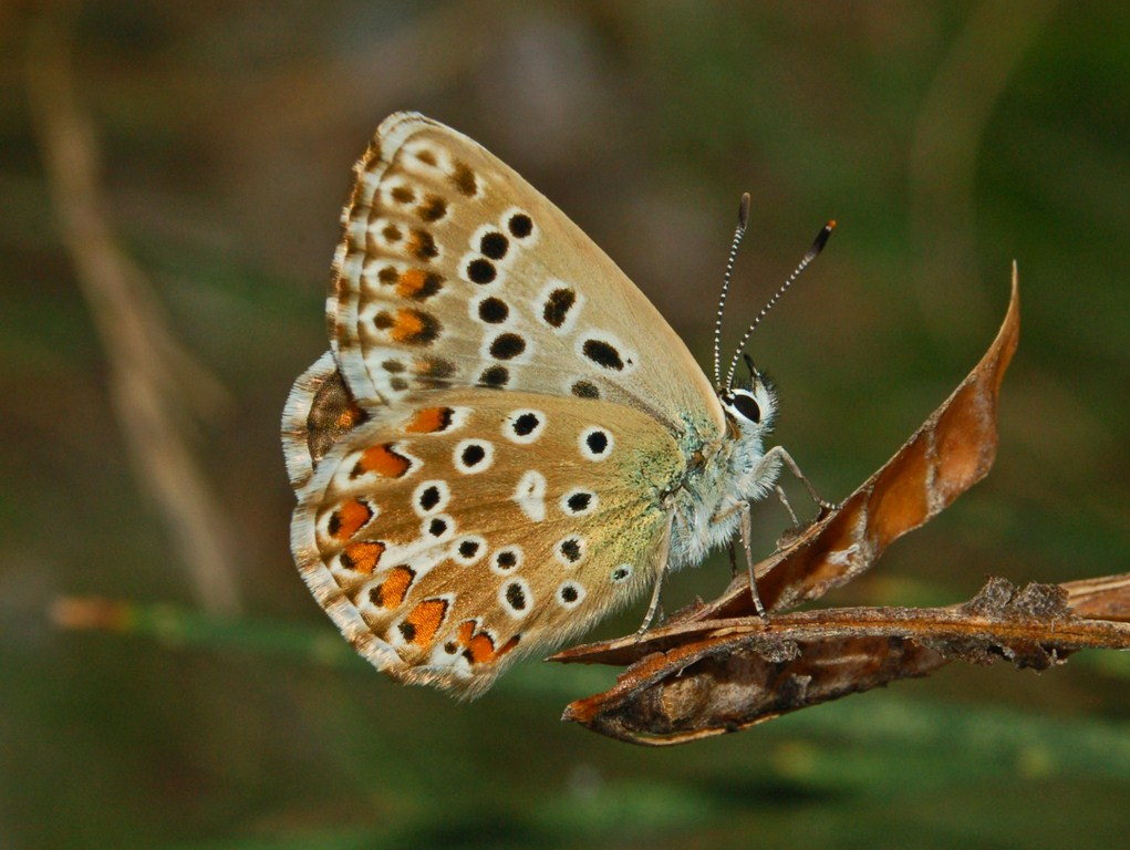 Lycaenidae - Polyommatus bellargus